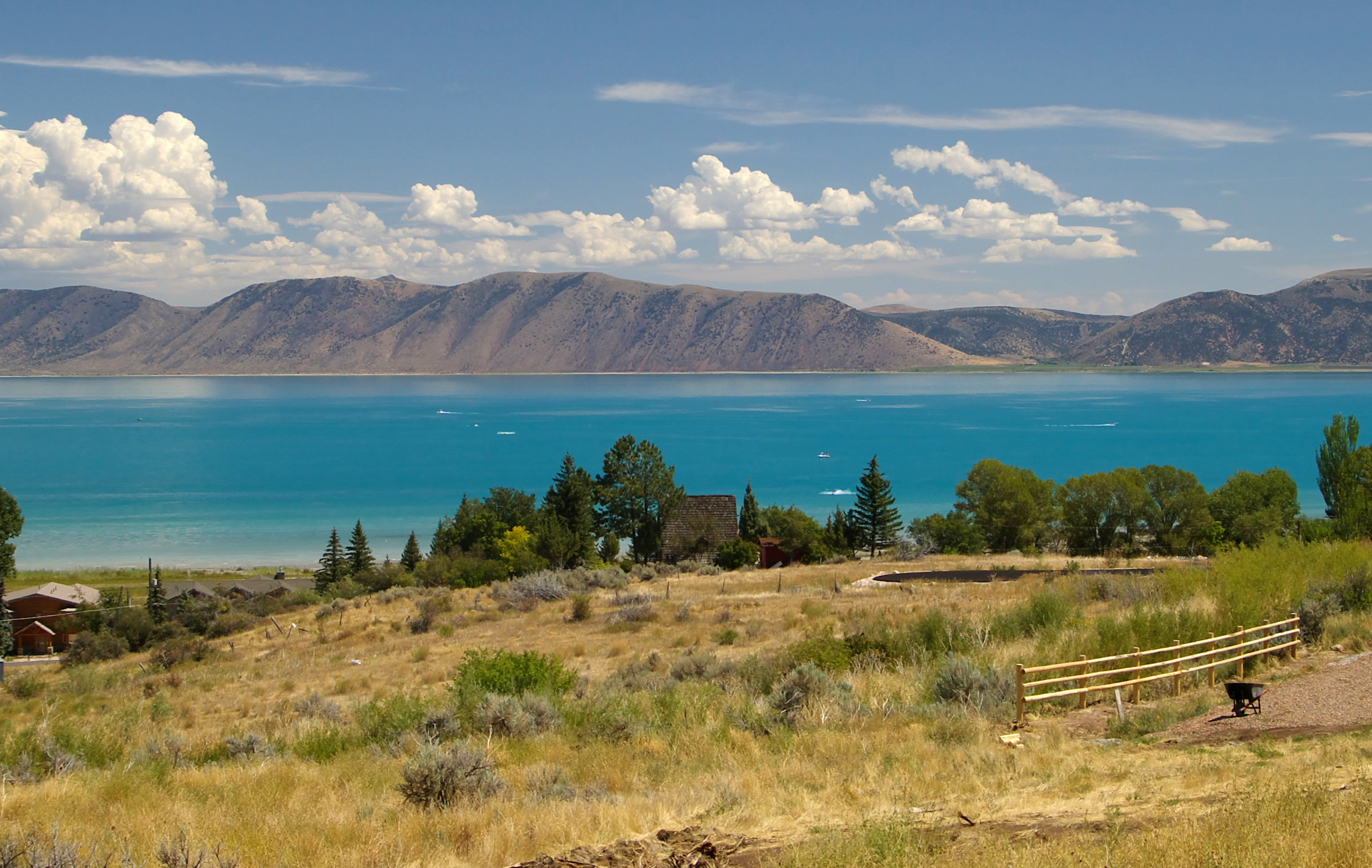 Bear Lake, which straddles the states of Idaho and Utah, seen from a distance. Visible is the unique aquamarine color of its waters due to minerals